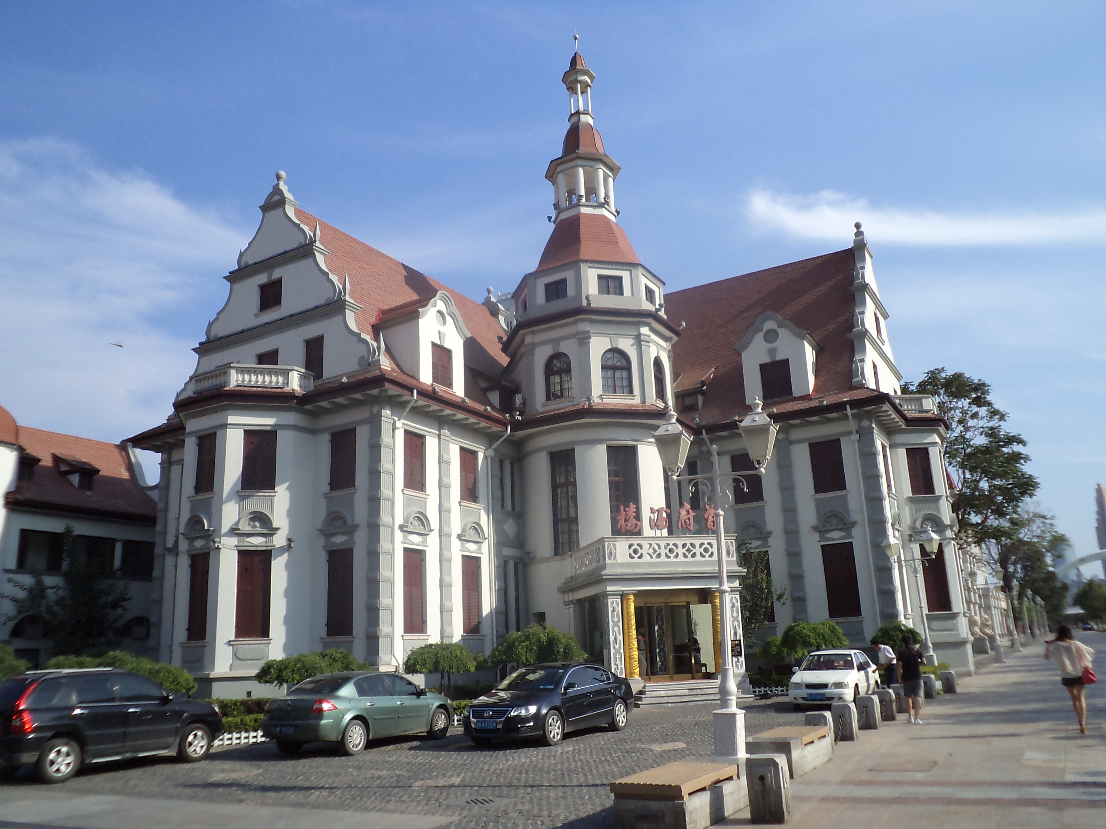 The villa of Yuan Shikai in Tianjin, at the area now known as the "Austrian Style Walkway"